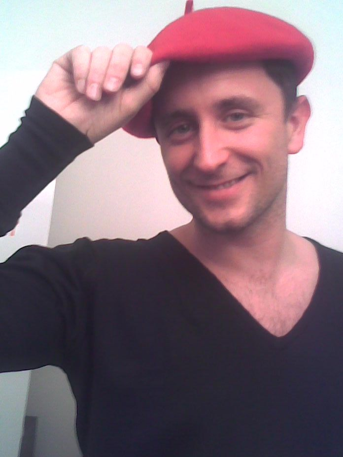 Adam Ficek by Leila 11 March 2009